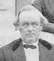 photograph of William H. Dame